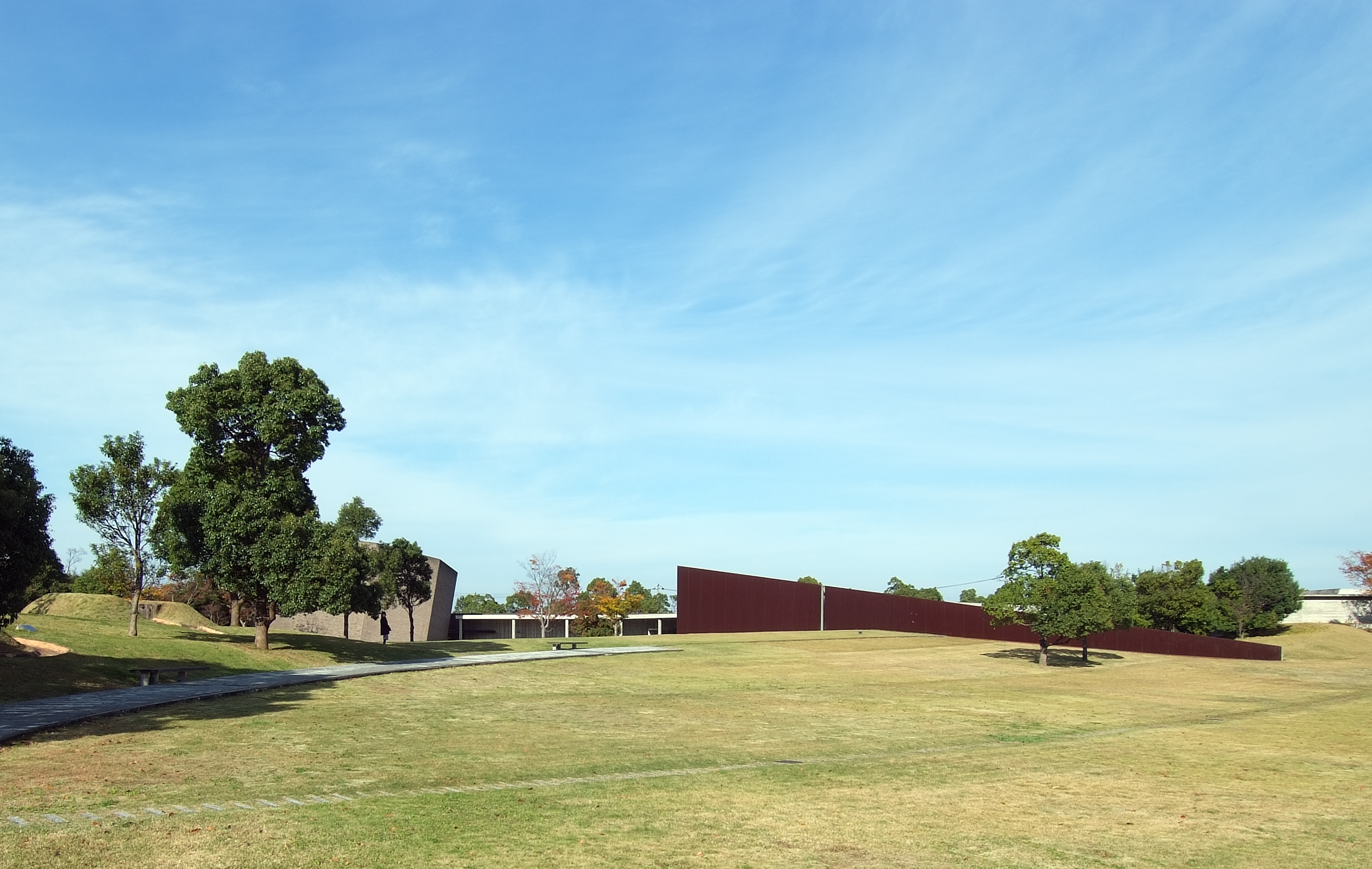 Kaze-no-Oka Crematorium, at Nakatsu Oita Japan, design by Fumihiko Maki in 1997.